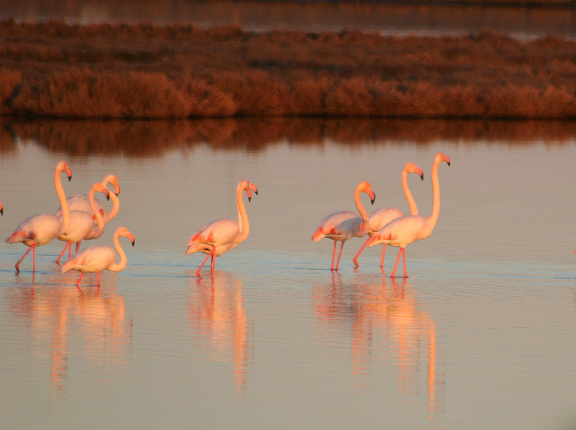 This is a photography of Natura 2000 protected area with ID GR1130010